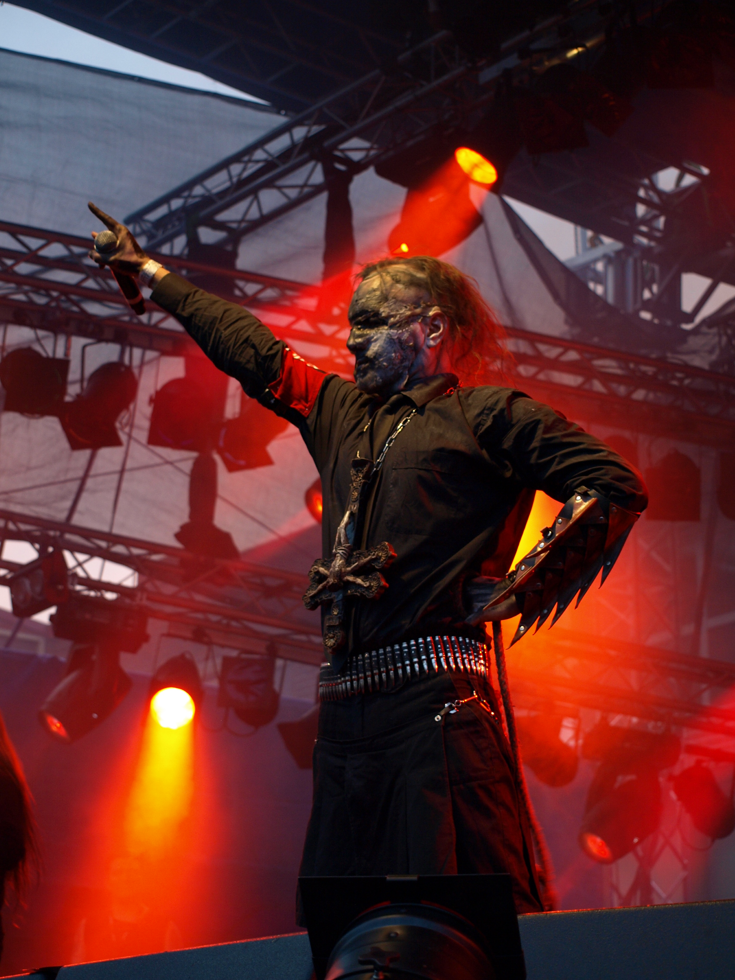 Norwegian black metal band Mayhem live at Jalometalli 2008 in Oulu.